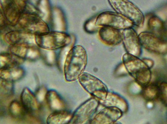 Gomphus floccosus spores in Melzer's